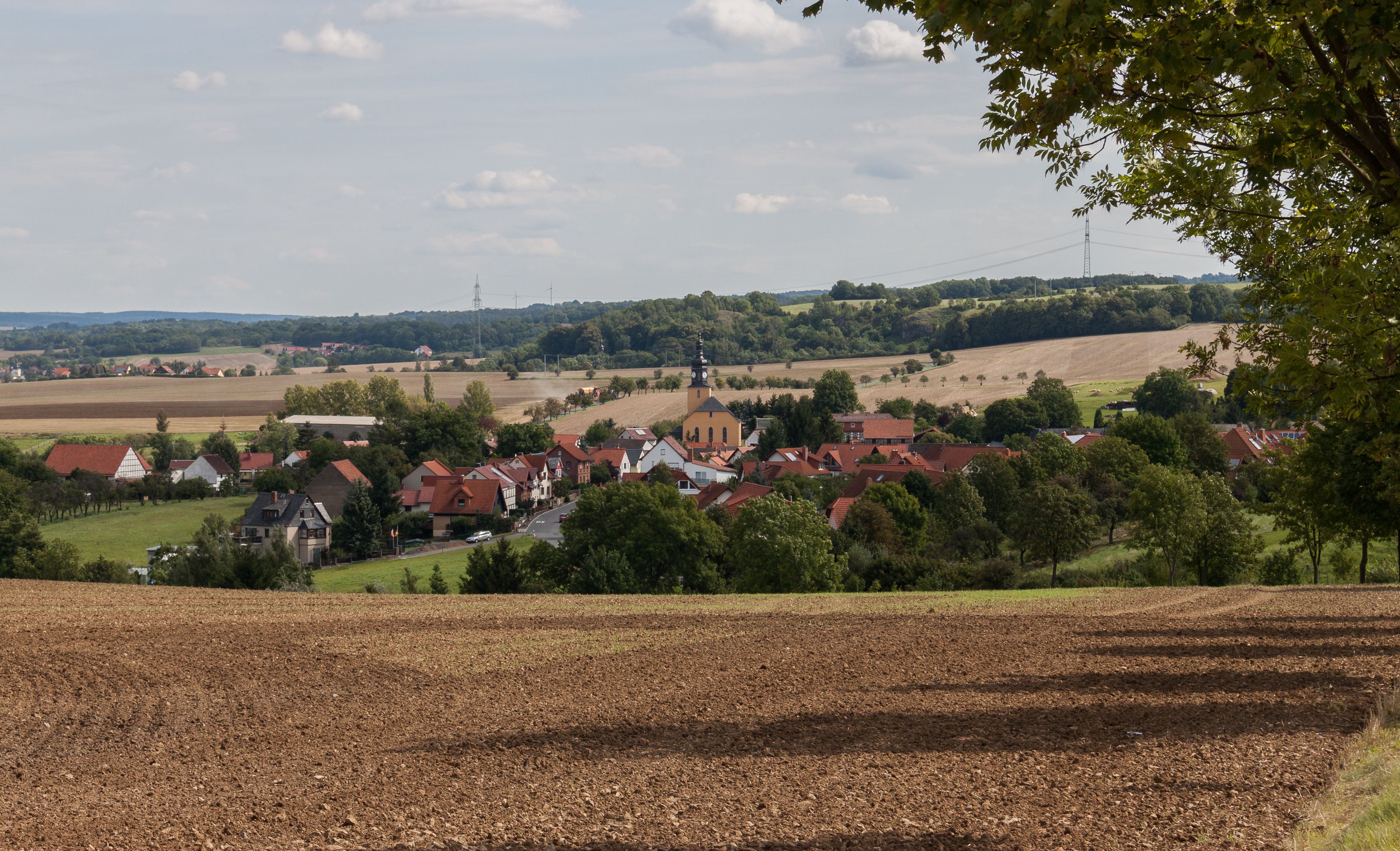 View on the village of Bodelwitz, Thuringia, Germany.